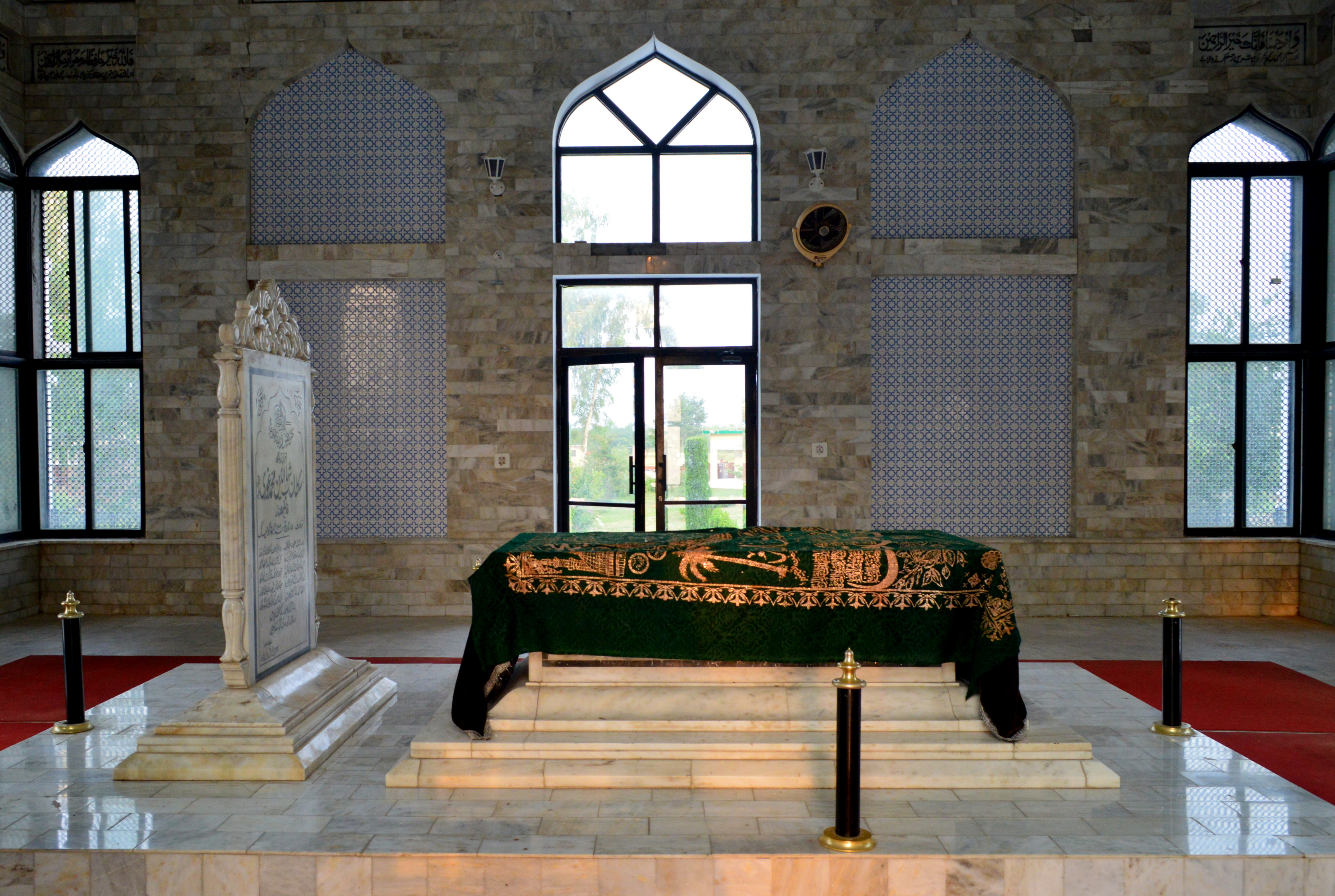 Shrine of Mu'izz al-Din Muhammad This is a photo of a monument in Pakistan identified as the PB-U-29